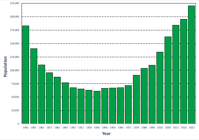 Population Graph of Meath 1841-2016